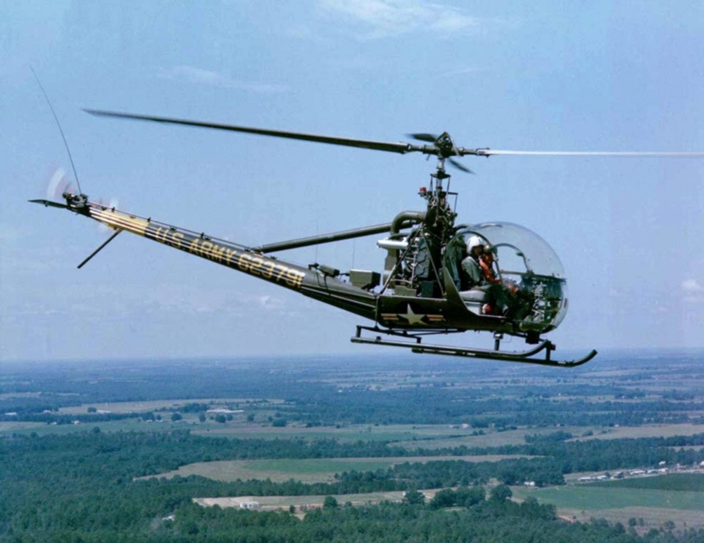 A U.S. Army Hiller OH-23G Raven helicopter (s/n 62-3791) in flight.